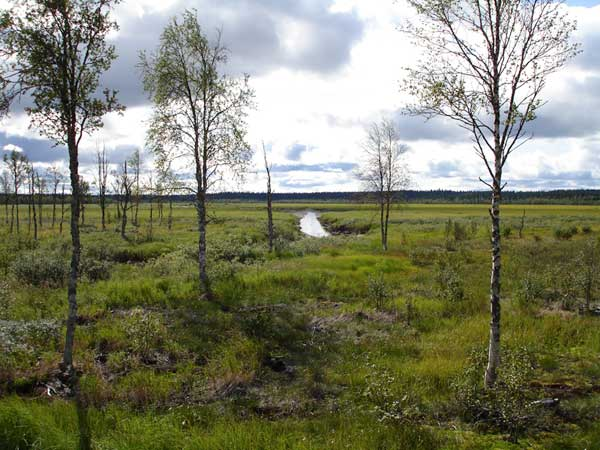 The former lake Risträsket, transformed to a meadow in the 19th century.